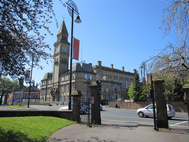 Chorley town hall from St Laurence's churchyard. Looking out from St Laurence's churchyard towards the town hall in Market Street.